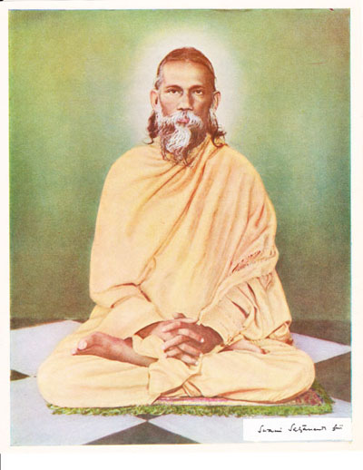 Swami Satyananda Giri was one of Swami Sri Yukteswar's chief disciples, and a brother disciple to Paramhansa Yogananda. Satyananda took charge of certain yoga centers in India, while Yogananda taught in the West.